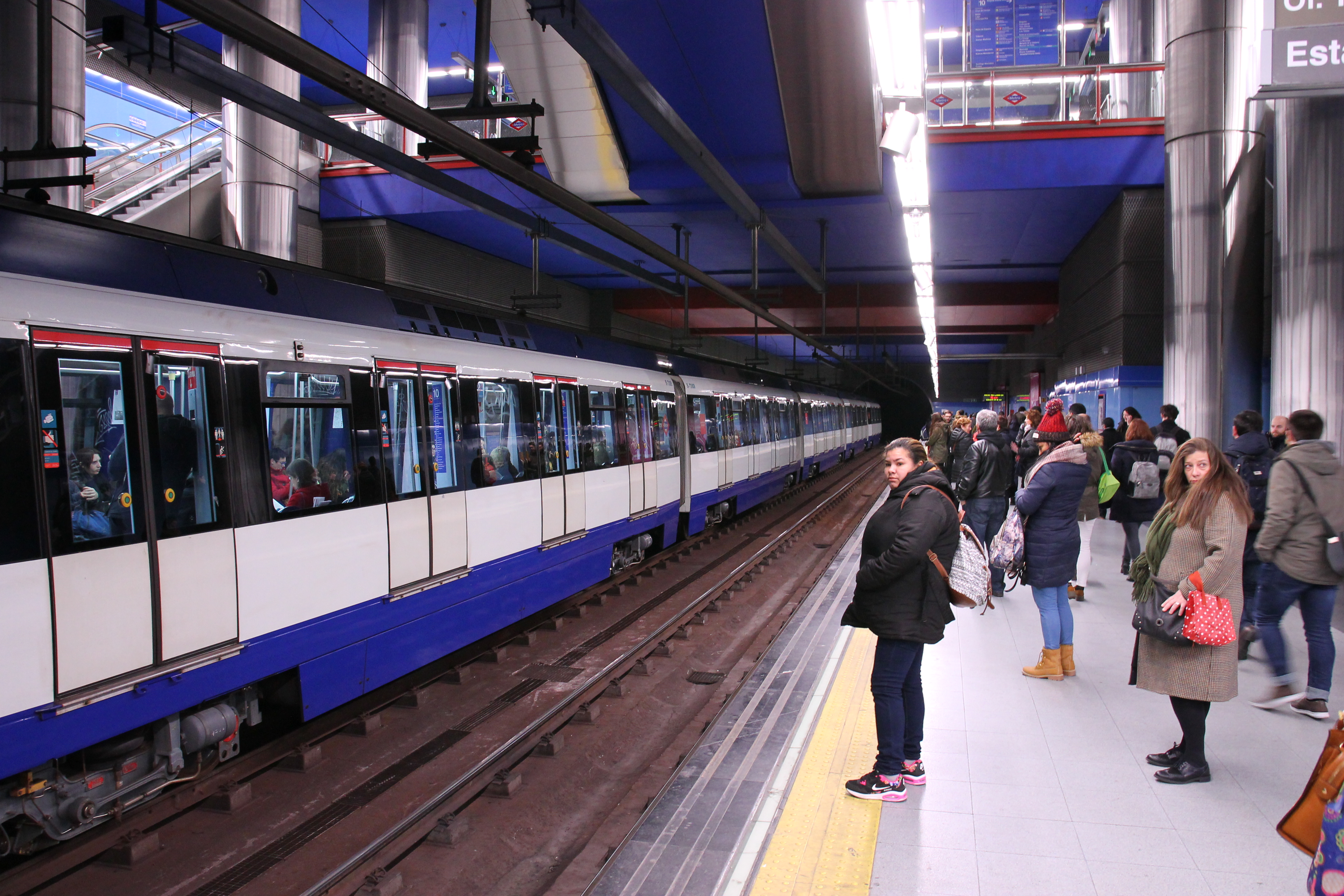 Estación de Colonia Jardín